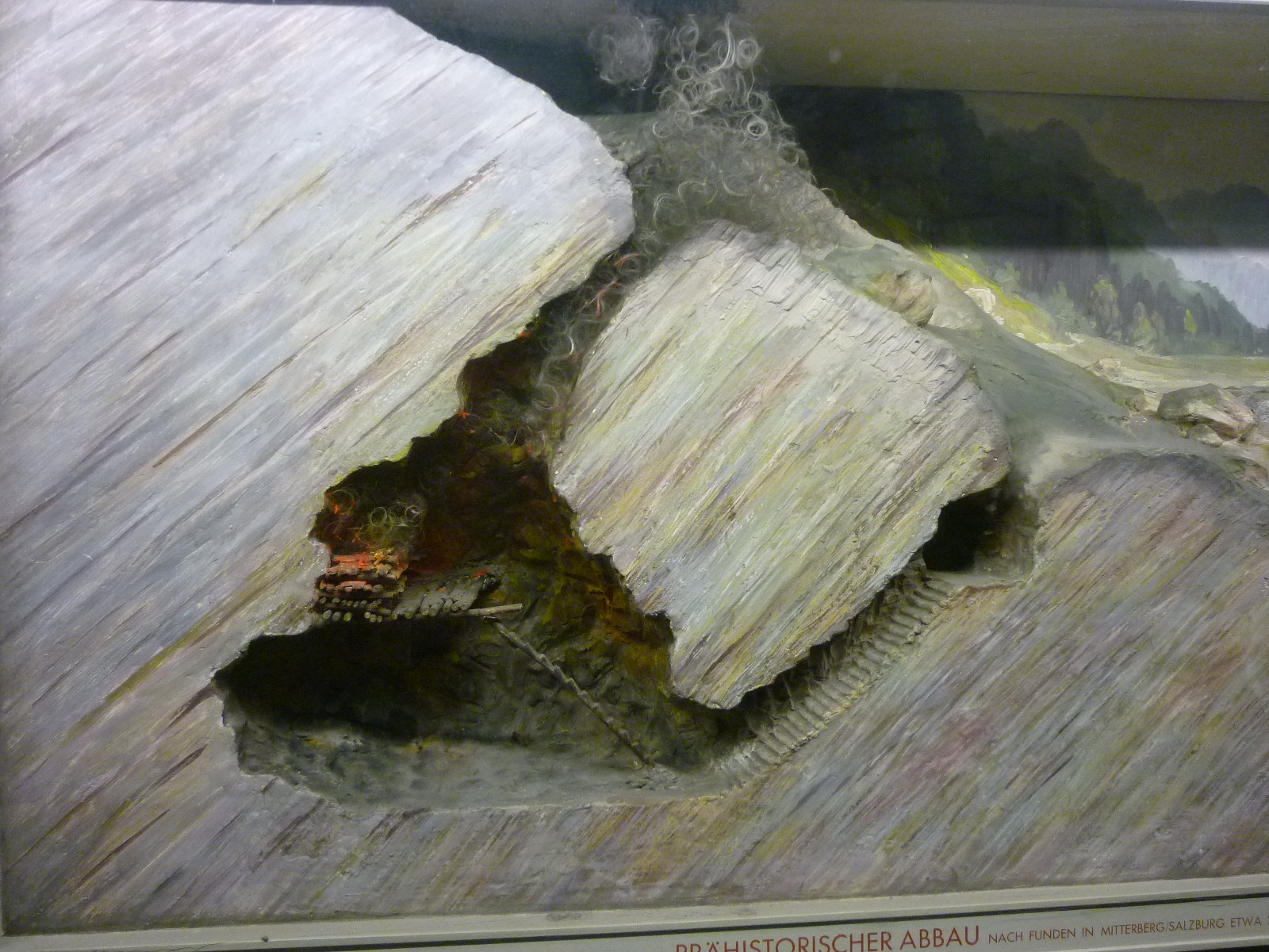 Firesetting. Model Deutsches Museum in Munich, Department of Mining